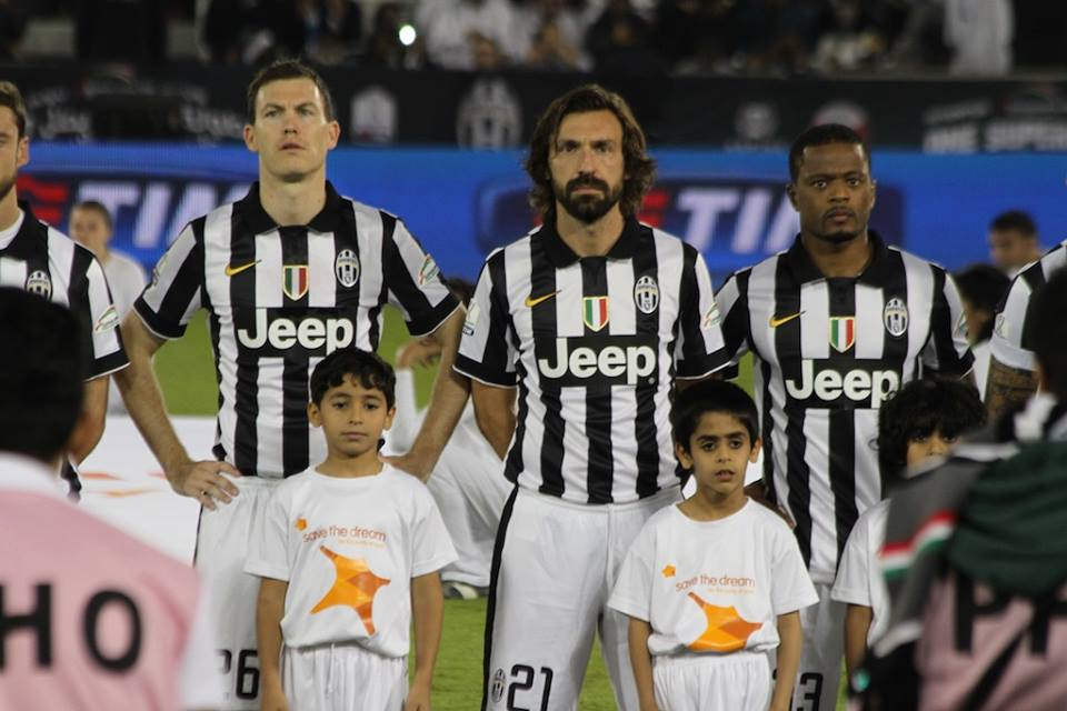 Save the Dream was proud to partner with Aspire Academy and the Qatar Football Association to spread the message of pure sport at the Italian Supercup finals between Juventus and SSC Napoli, held in Doha on December 22nd, 2014. Bianconeri's Stephan Lichtsteiner, Andrea Pirlo and Patrice Evra.